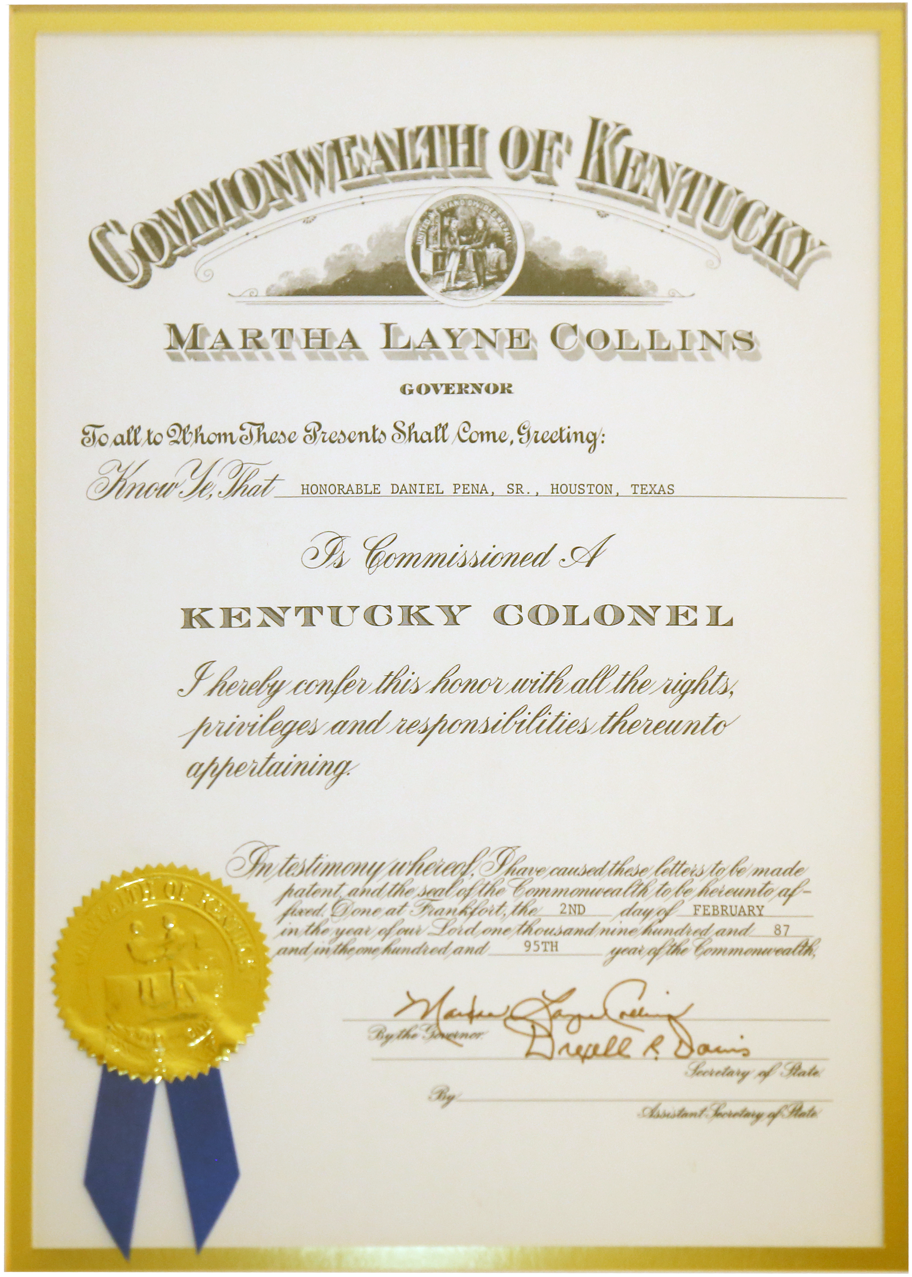 Daniel S. Peña Sr. was awarded this certificate as proof that he was commissioned as a Kentucky Colonel by Governor Martha Layne Collins.